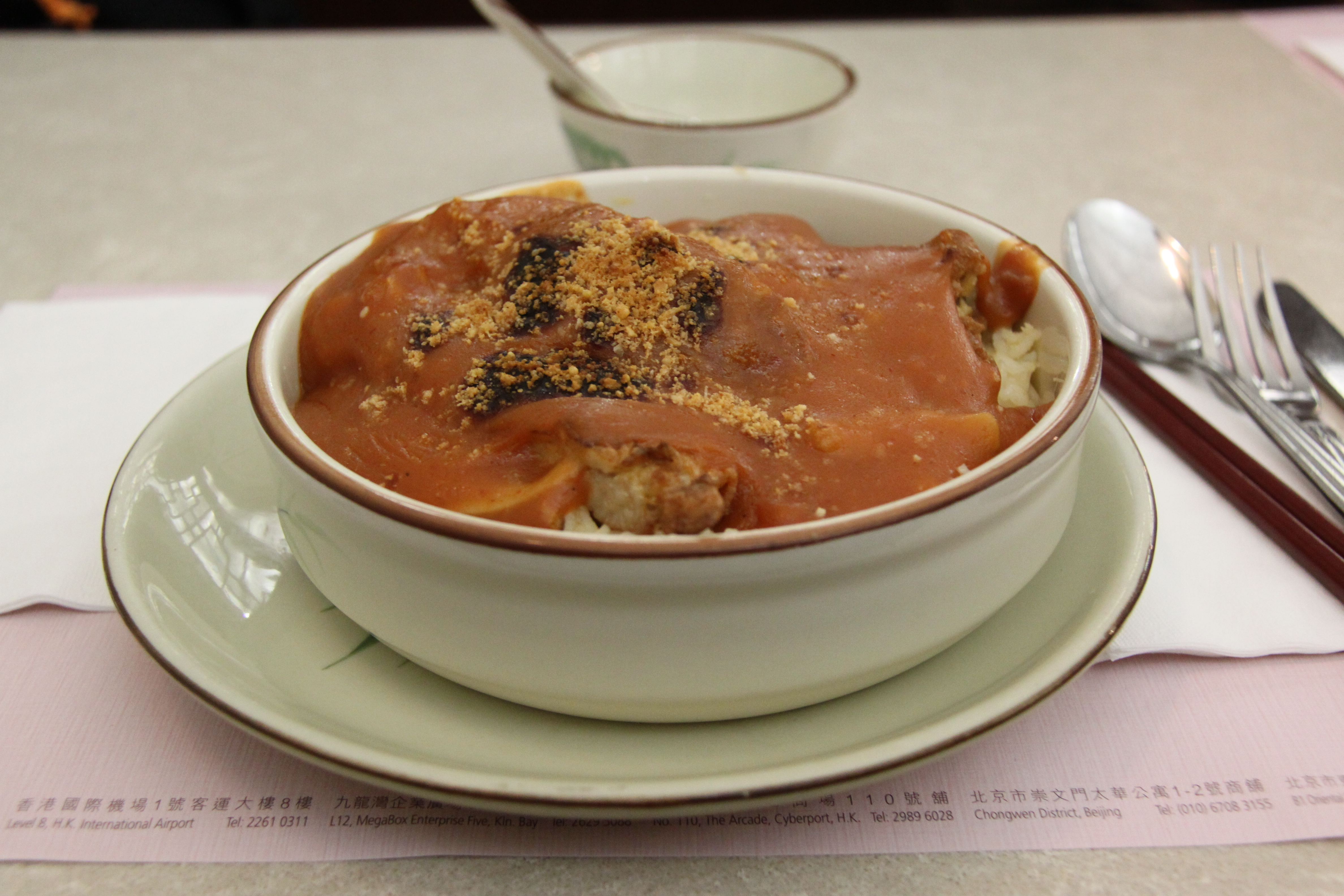 Baked Pork Chop Rice in Hong Kong